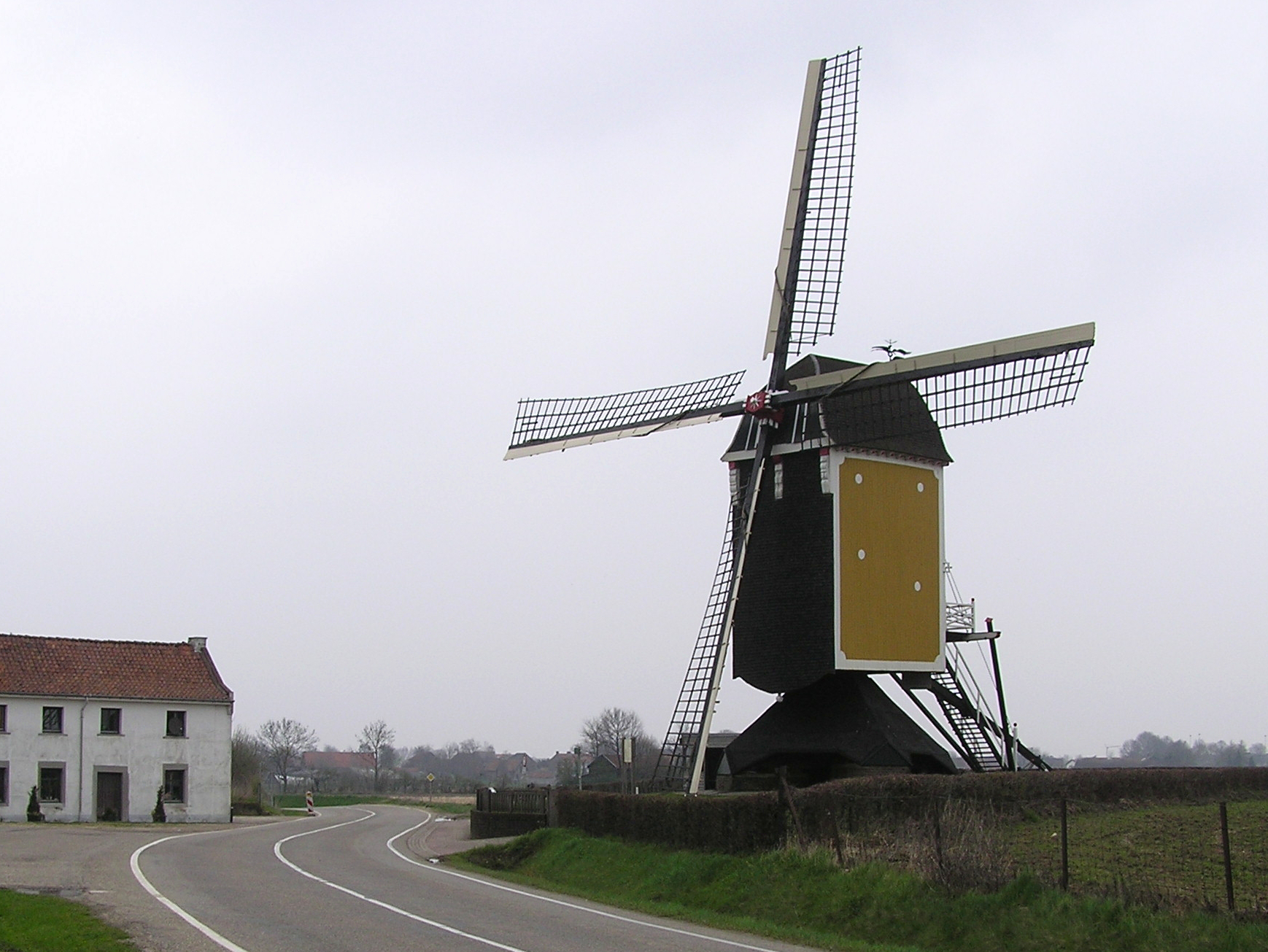 An old windmill near Beek, Limburg (NL).